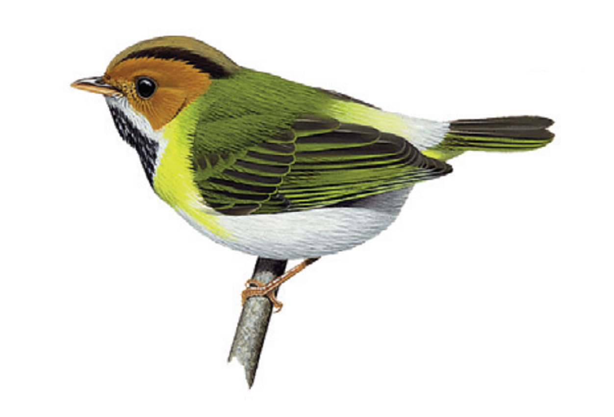 Rufous-faced Warbler Abroscopus albogularis albogularis